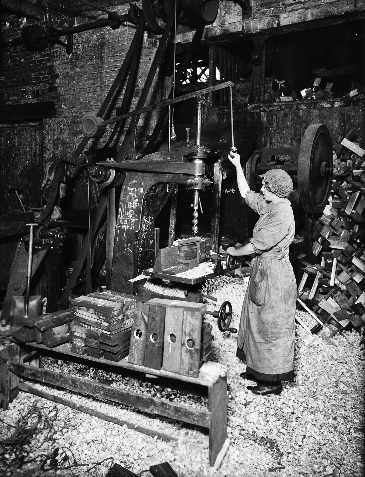 Woman operating boring machine; boring wooden reels for winding barbed wire. Book Title: What the Daughters of Britain are Doing Artist: Tella Camera Co. Creation Date: c. 1917 Process: gelatin silver print Credit Line: Gift of Stephen White Accession Number: 2005.024.030